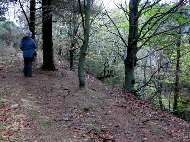 The Rim of Culpeppers Dish